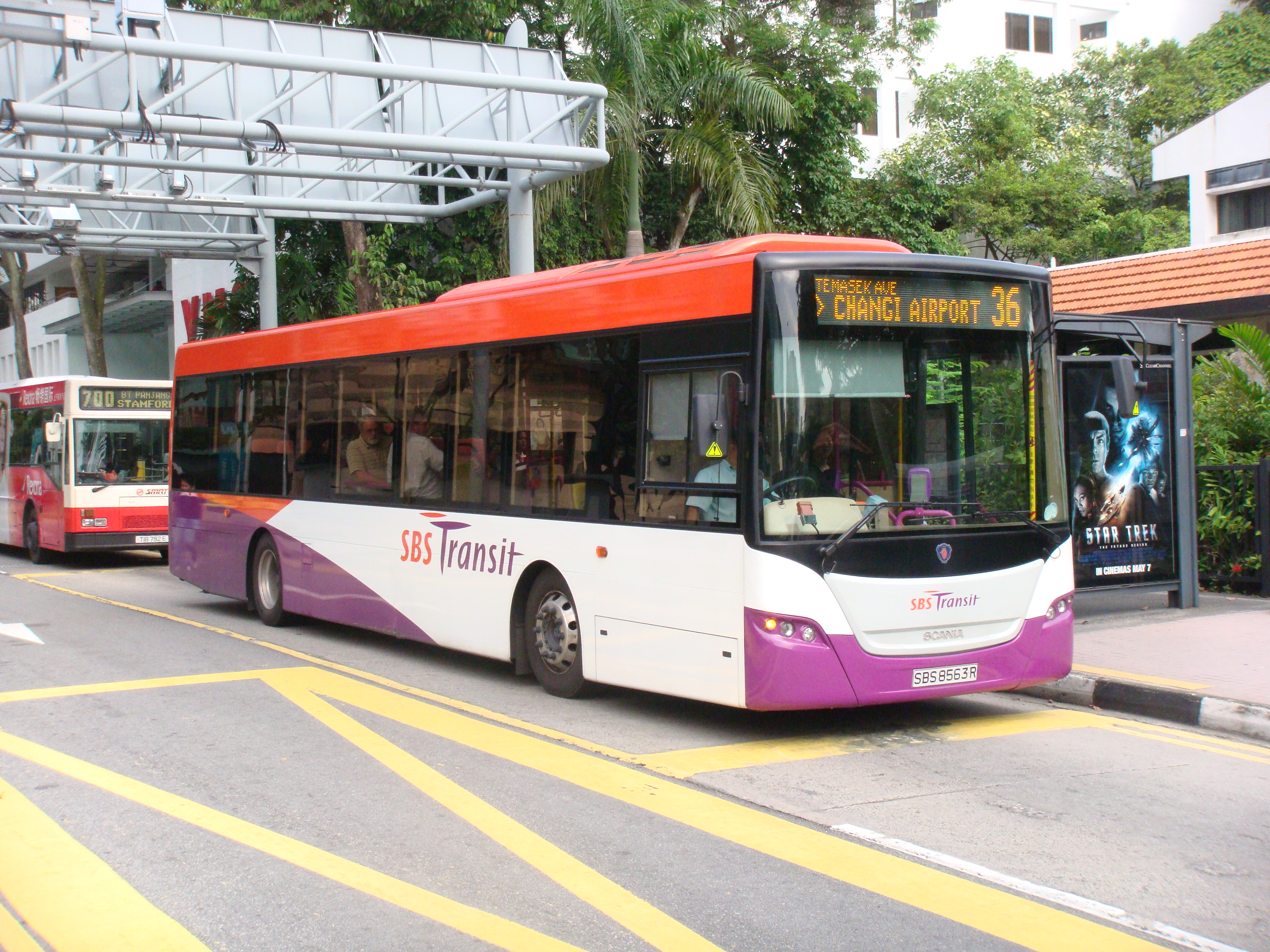 SBS Transit's Gemilang bodied Scania K230UB (Euro V batch, SBS8563R, built 2009) in Dhoby Ghaut, Singapore.